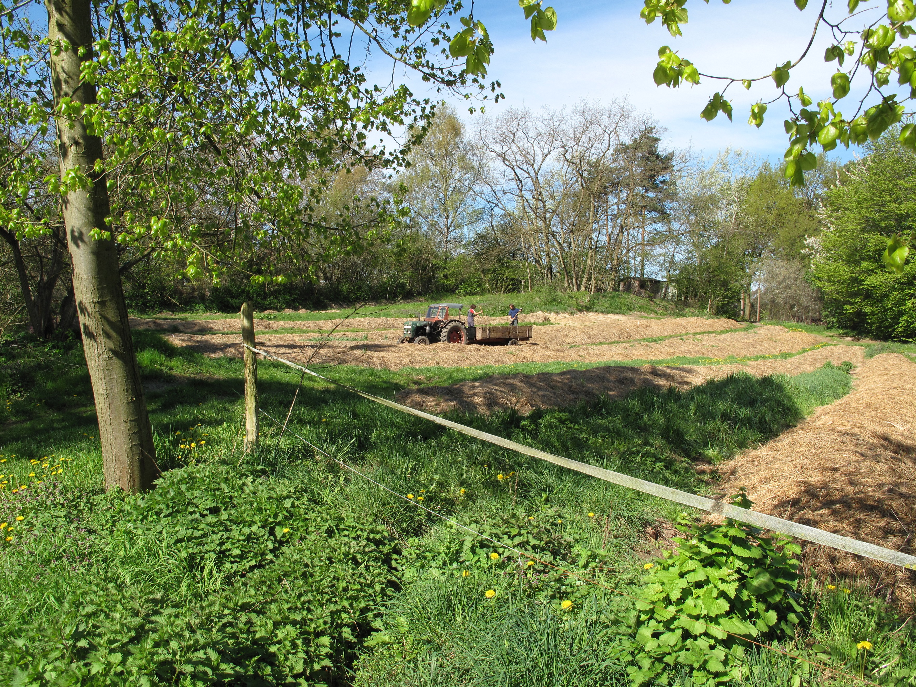 Field of the „Hof Marienhöhe“ in April 2014. Marienhöhe is a part (settlement, estate; german: Wohnplatz) and organic farm of Bad Saarow, District Oder-Spree, Brandenburg, Germany. The place was established in 1880 as folwark of the manor Saarow. Since 1928 the „Hof Marienhöhe“ works on the biodynamic agriculture-method (Demeter international) and is considered to be the oldest farm working with this method in Germany.